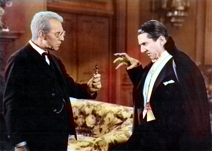 Cropped and edited version of this file, featuring Bela Lugosi and Edward Van Sloan. This image is in the public domain, as no copyright notice was attached to the original.